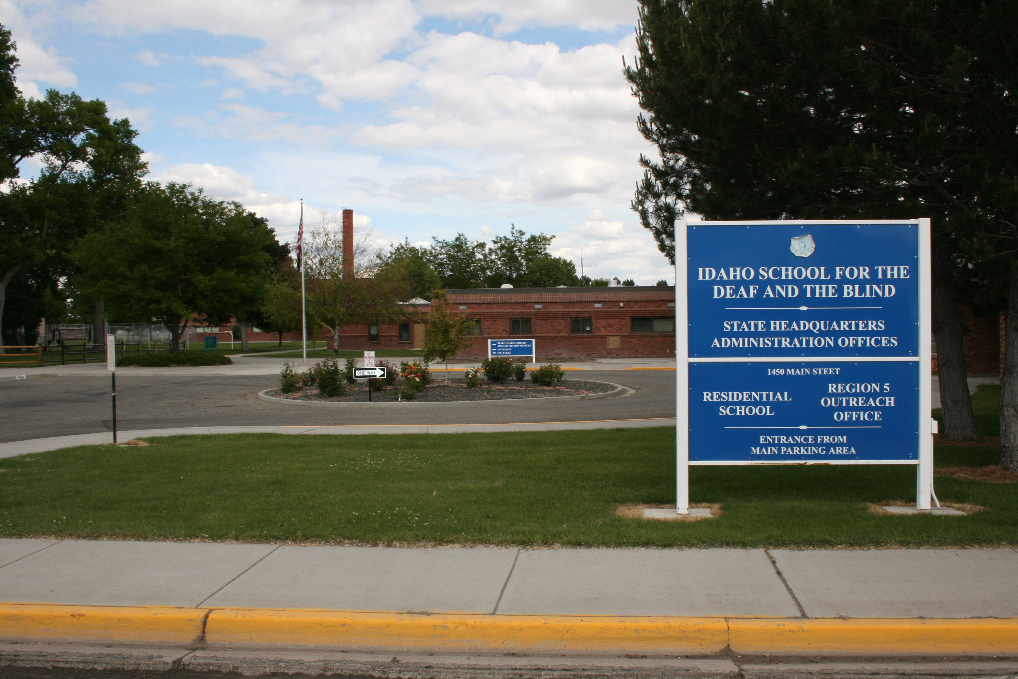 Photographer: myself, Gh5046 A photo of the main entrance and administration offices of the Idaho School for the Deaf and the Blind taken 2007/06/08 in Gooding, Idaho. The photo is in its original state.